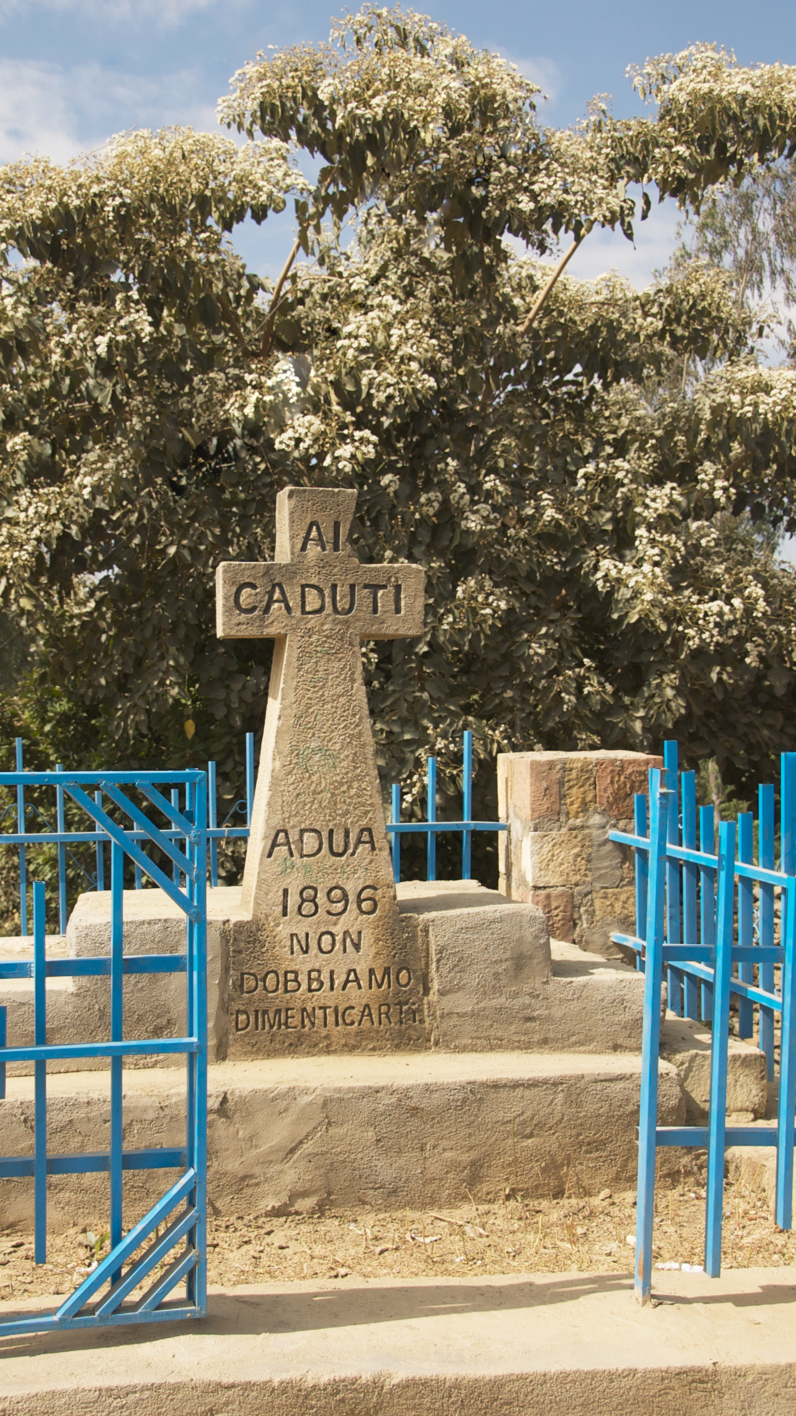 This is the Italian memorial in the northern Ethiopian town of Adwa to the Italian soldiers who perished in the Battle of Adwa on March 1, 1896. The inscription at the top of the cross says, simply, "To the Fallen." Below the date of the battle, 1896, are inscribed the words "We should never forget you." Ethiopian forces led by Emperor Menelik II defeated the Italian army that day, marking the first time an African army prevailed over European armed forces. The defeat ended Italy's attempt to conquer Ethiopia in the 19th century. I was both surprised and moved that the memorial has survived. I don't know when it was built - shame on me - but I'd guess it dates to the Italian occupation of Ethiopia from 1936 to 1941 at the earliest. I'm surprised the memorial wasn't destroyed when Emperor Haile Selassie I was restored to power in 1941, or during the communist Derg regime that followed Selassie's ouster, the war that took out the Derg, or the war between Ethiopia and Eritrea. I suspect the memorial hasn't always been in the pristine condition pictured here. It would not surprise me if there's an agreement between the Ethiopian and Italian governments to ensure the continued upkeep of this memorial to a lost cause. If Americans or any other members of the so-called "Coalition of the Willing" are foolish enough to erect memorials in Iraq outside the Green Zone or other highly secure locations, I predict the populace will demolish them before the dust from the departing dedication convoy has settled.